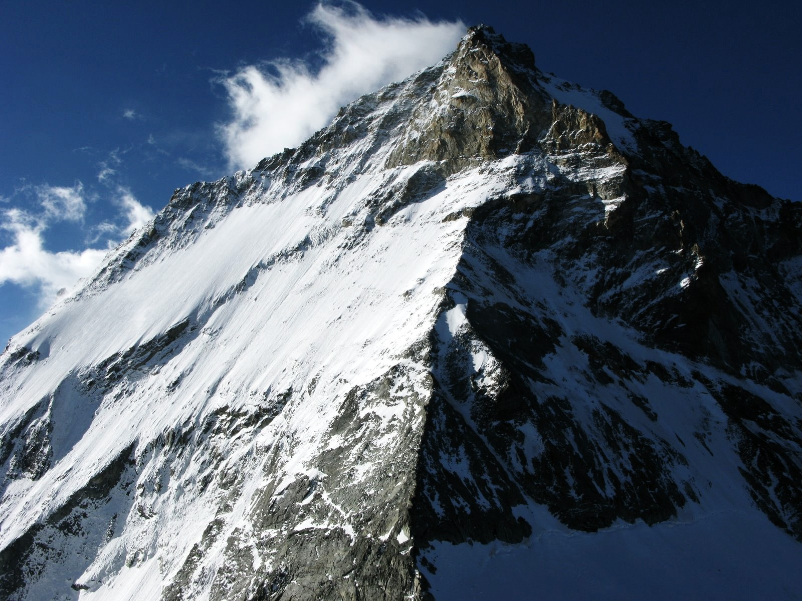 northern and western walls of Dent Blanche